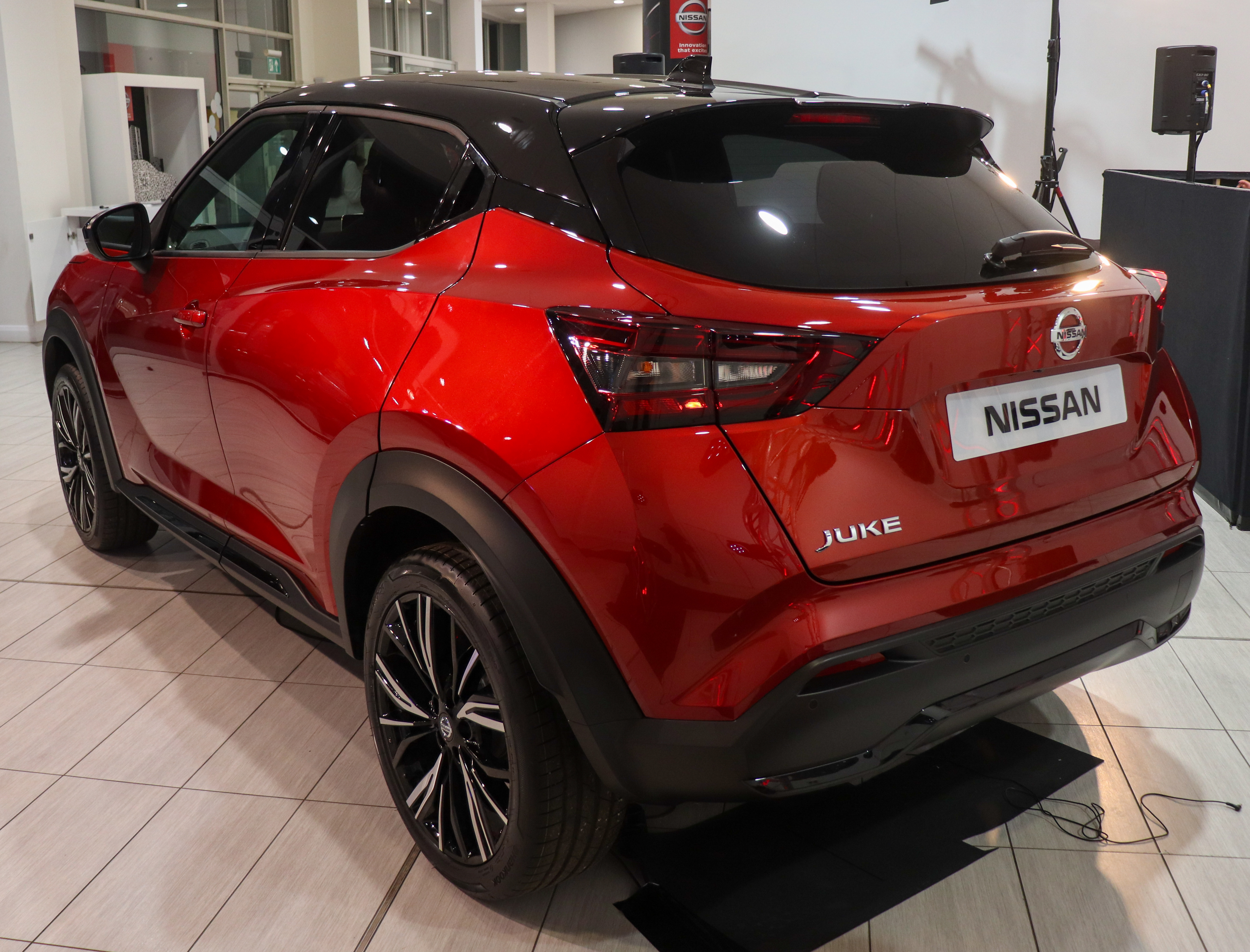 2019 Nissan Juke Tekna+ 1.0 Rear in Fuji Sunset Red with Pearl Black Roof and door mirrors Taken at the VIP Preview at Arbury Nissan Leamington Spa